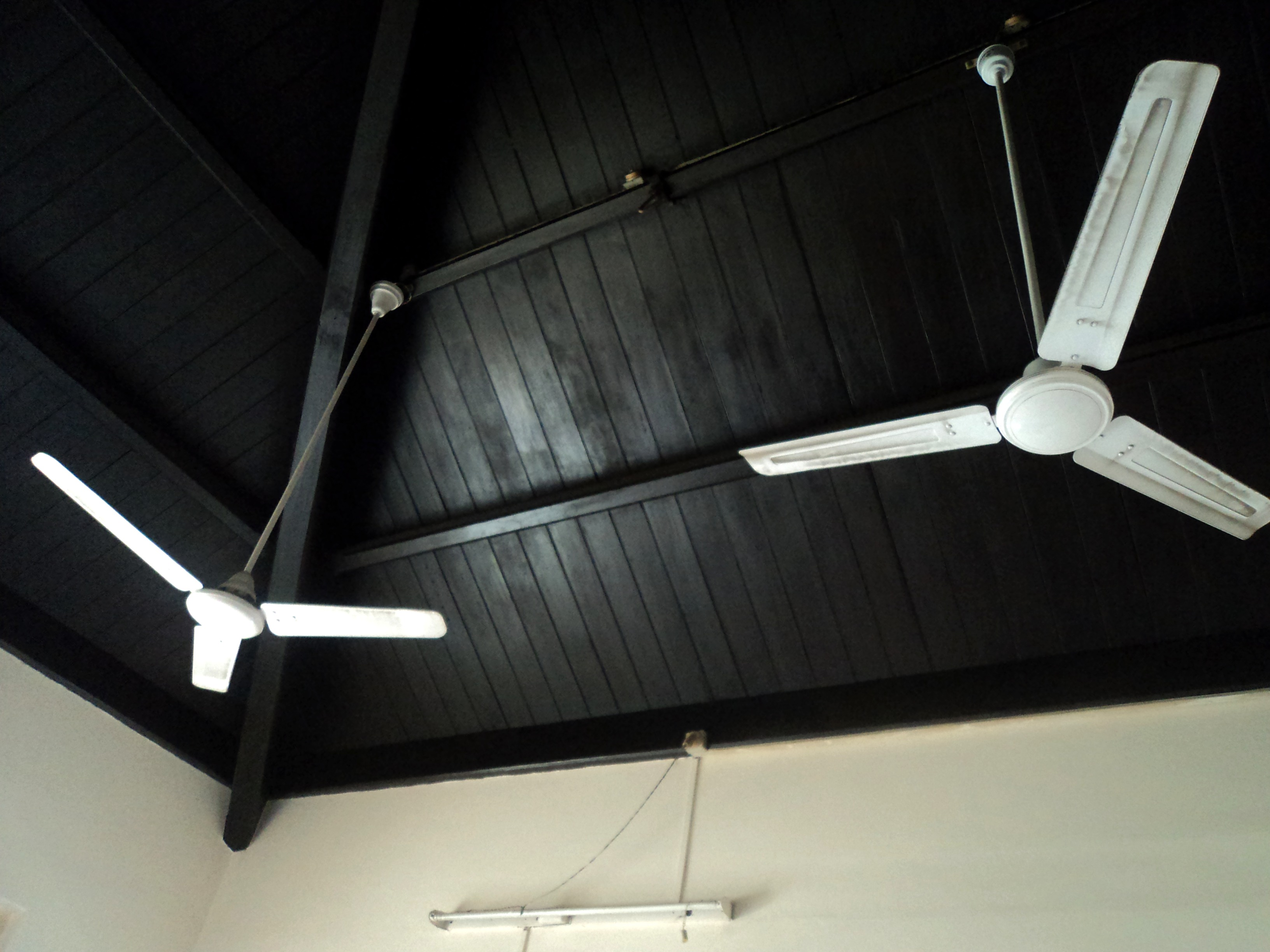 ceiling fans